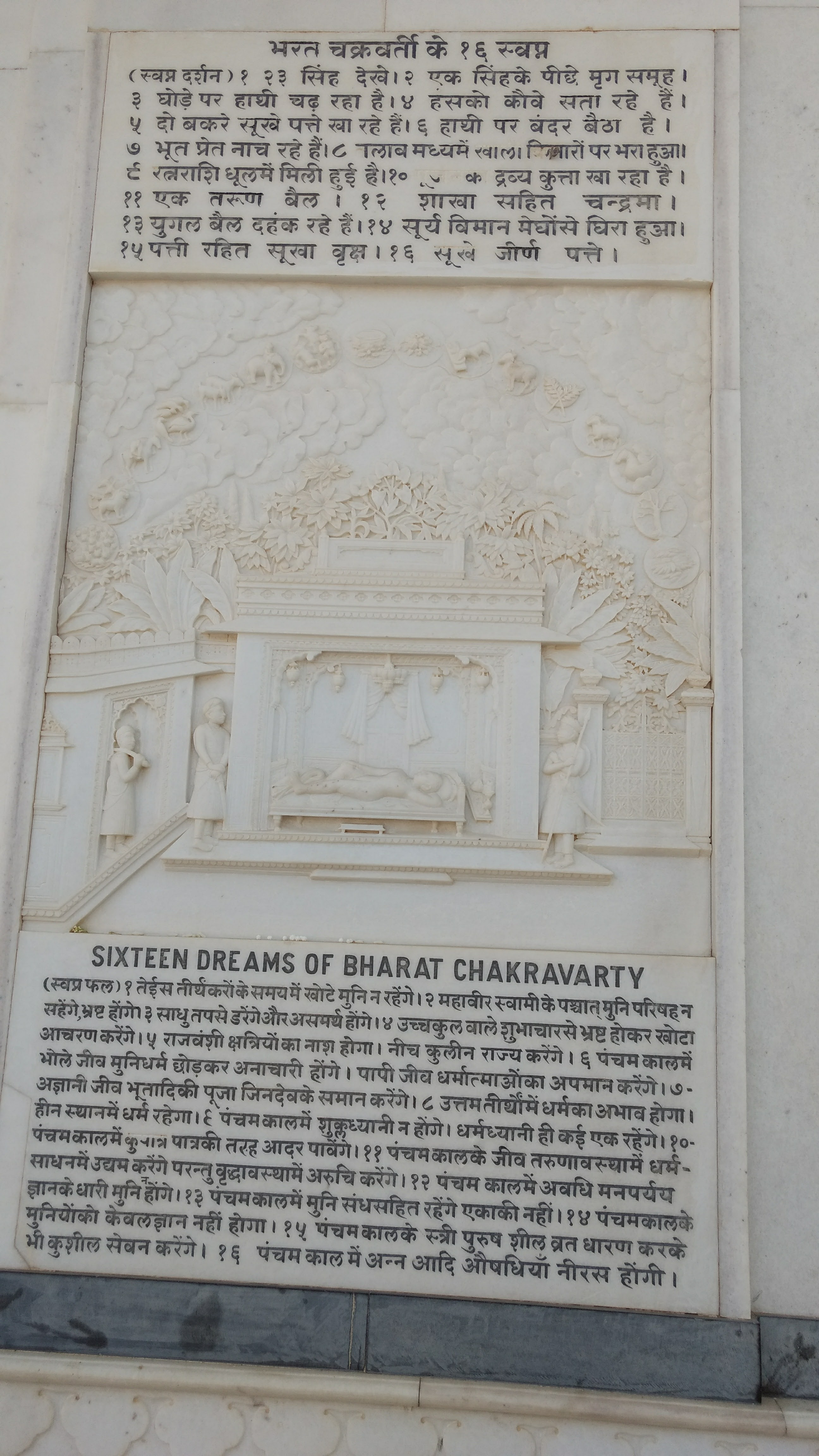 Inscription in Mahavirji depicting auspicious dreams of Bharata